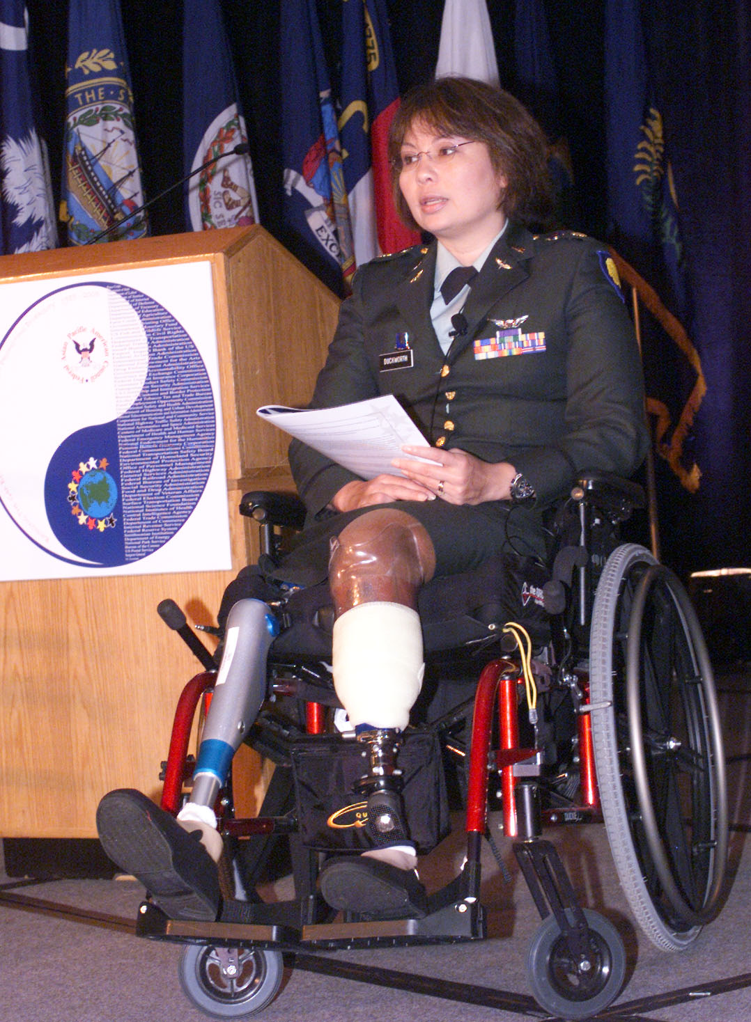 Army Maj. Ladda "Tammy" Duckworth of the Illinois Army National Guard's 1st Battalion, 106th Aviation Regiment, narrates the "Salute to Fallen Asian Pacific Islander Heroes." during the Defense Department's Asian Pacific American Heritage Month luncheon and military awards ceremony in Arlington, Va., June 2. An Army Black Hawk helicopter pilot, Duckworth suffered the loss of both legs when a rocket-propelled grenade penetrated her helicopter beneath her feet and exploded at her knees in Iraq.